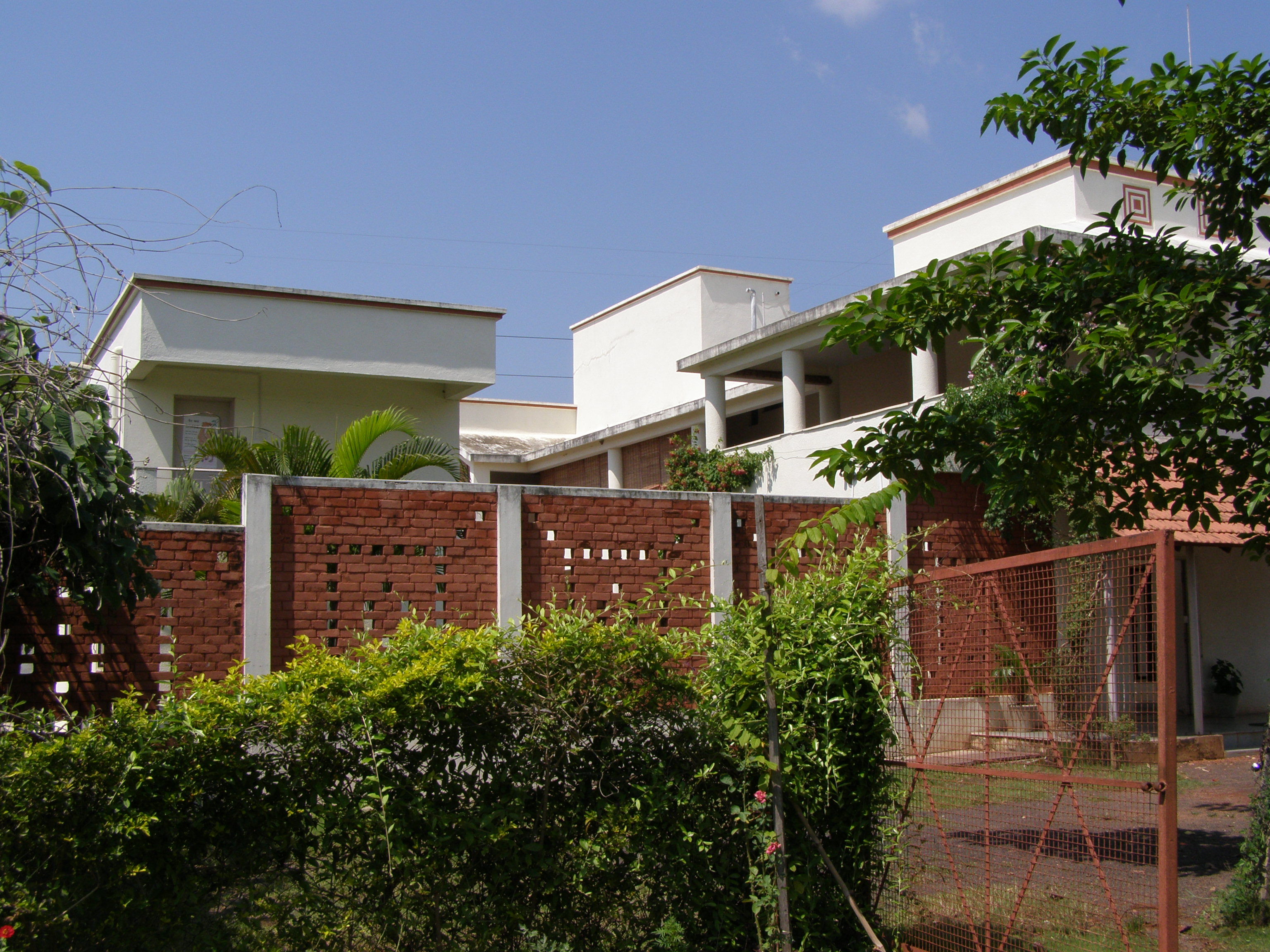 Eklavya Campus Hoshangabad